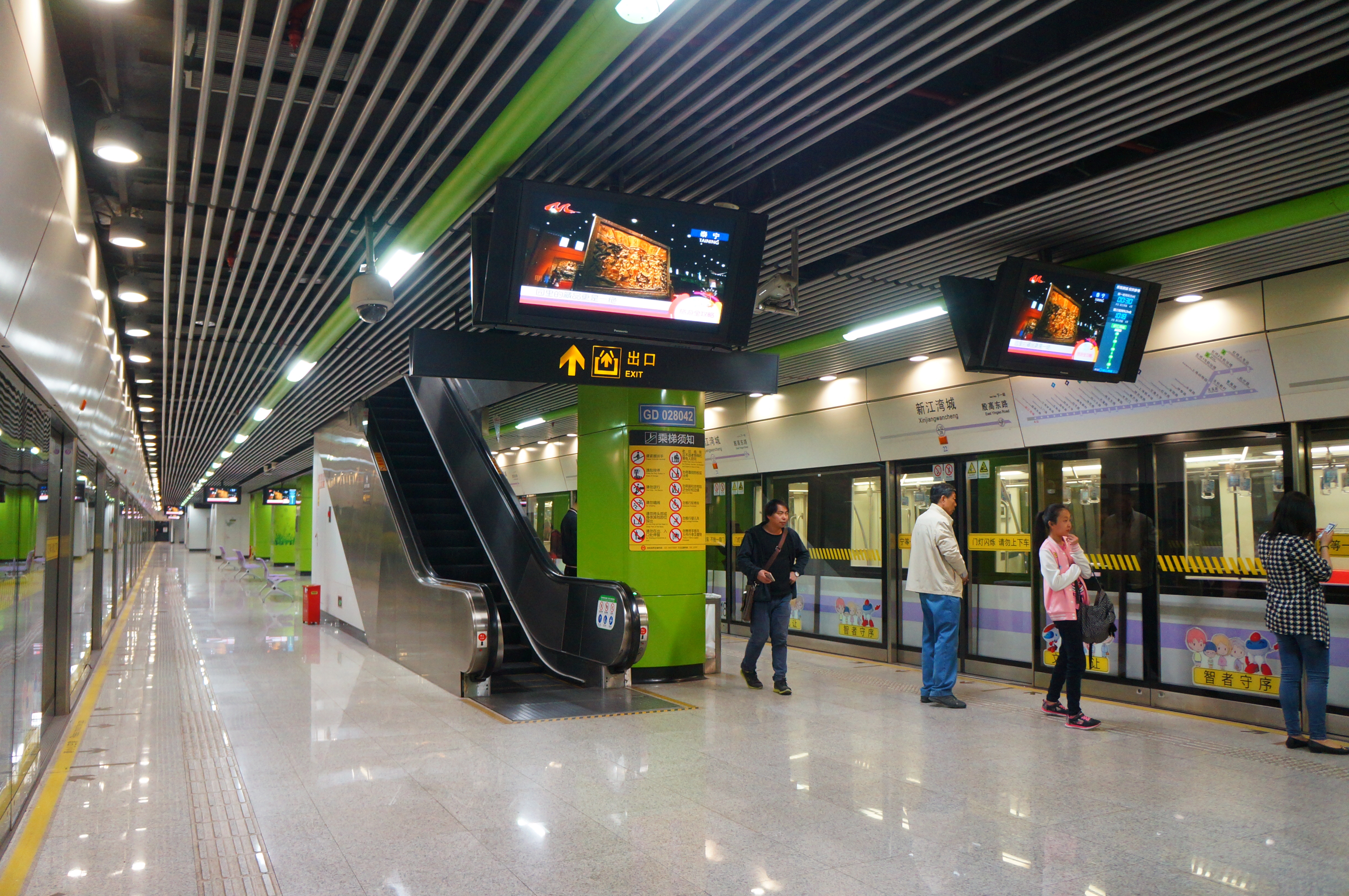 201704 Platform of Xinjiangwancheng Station